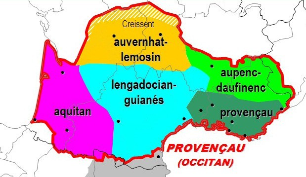 A map of Occitan dialects according to Ronjat.